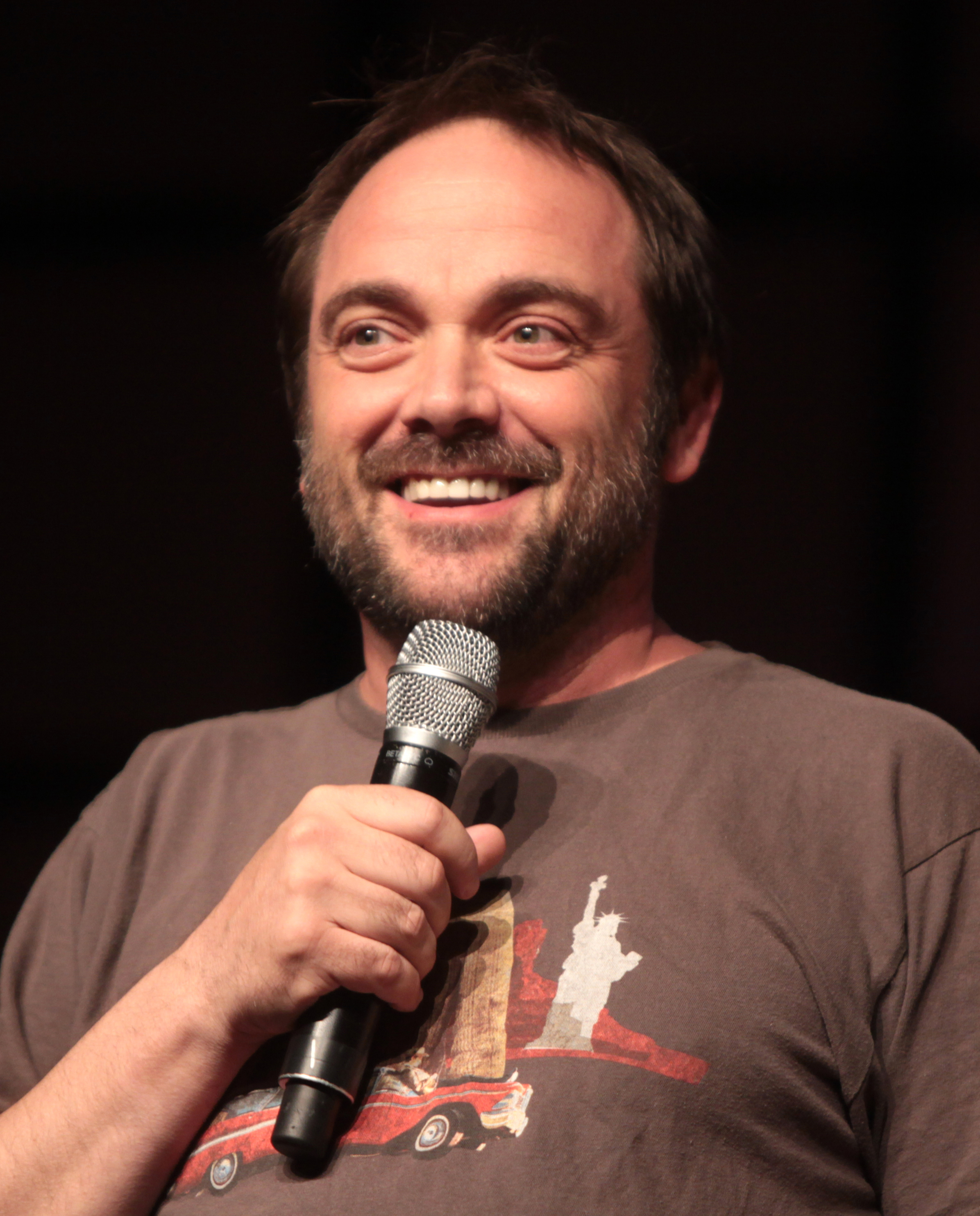 Mark Sheppard speaking at the 2014 Phoenix Comicon on June 6, 2014.